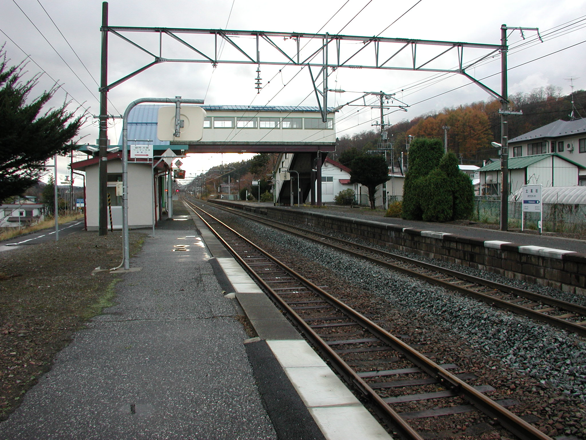 Kita-Takaiwa Station platforms